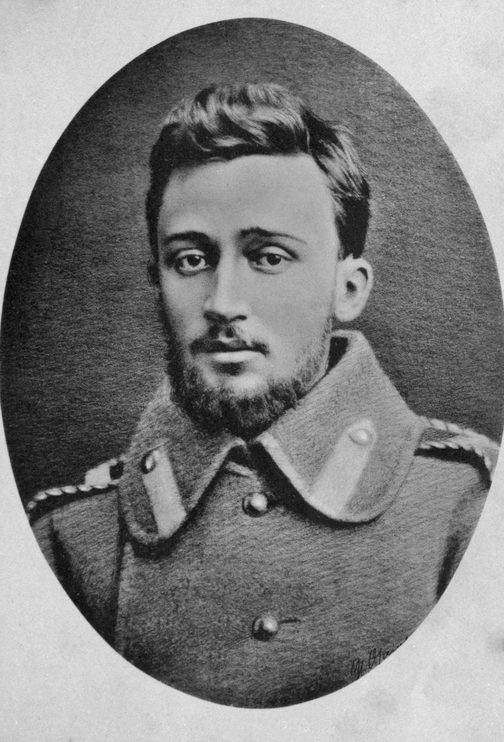 Russian writer Garsin, Vsevolod Mikhaylovich.